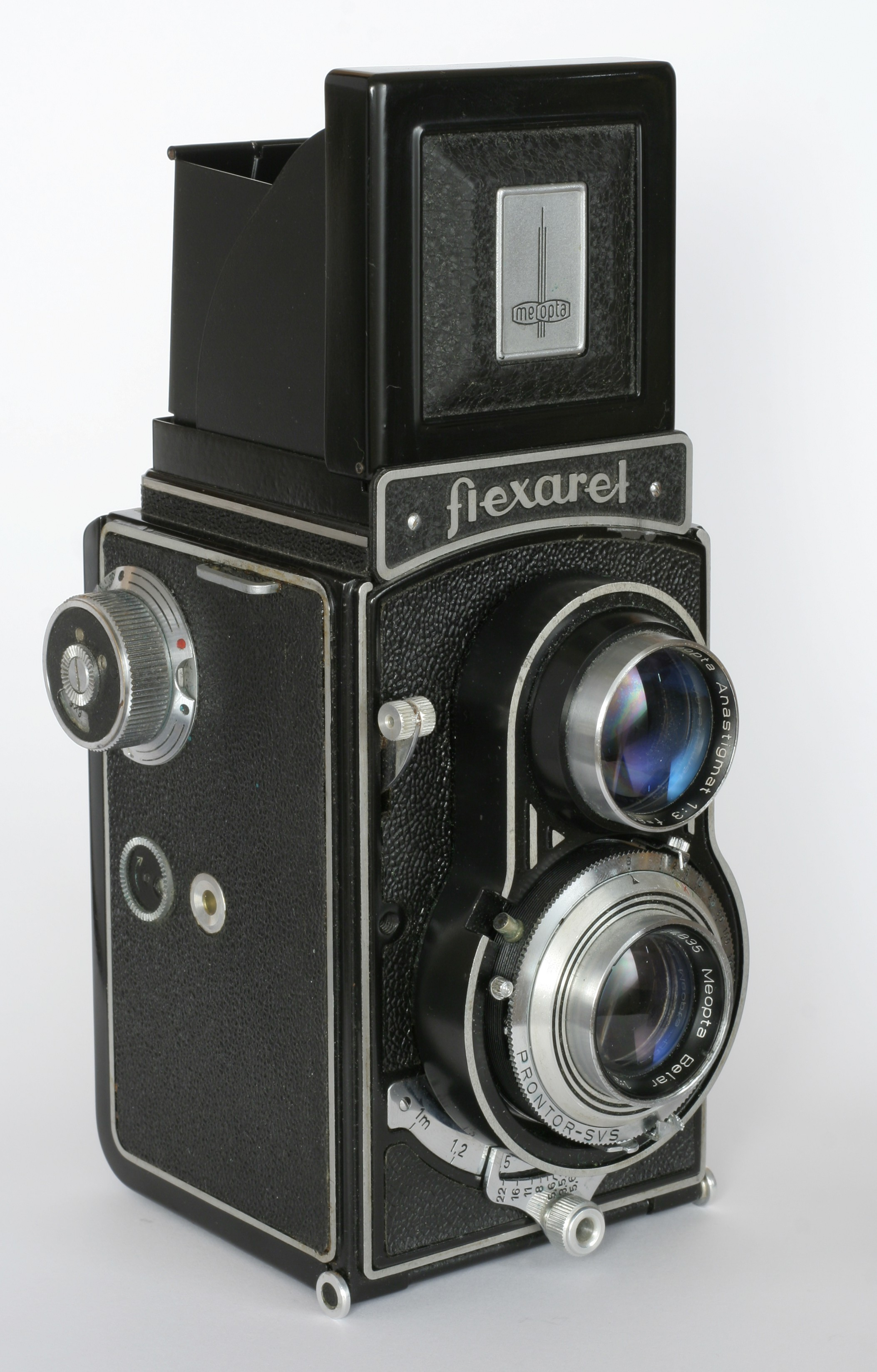 Antique Camera Flexaret IVa